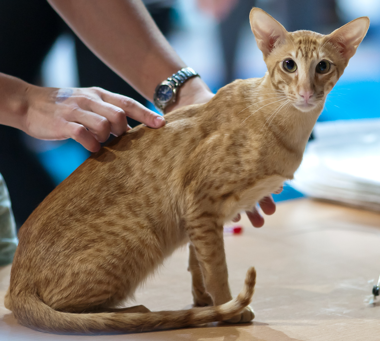 Red spotted tabby oriental shorthair in Surok cat show (2011). CH Clamoris Epeius (Omar) [OSH d 24] male EX1 CACIB